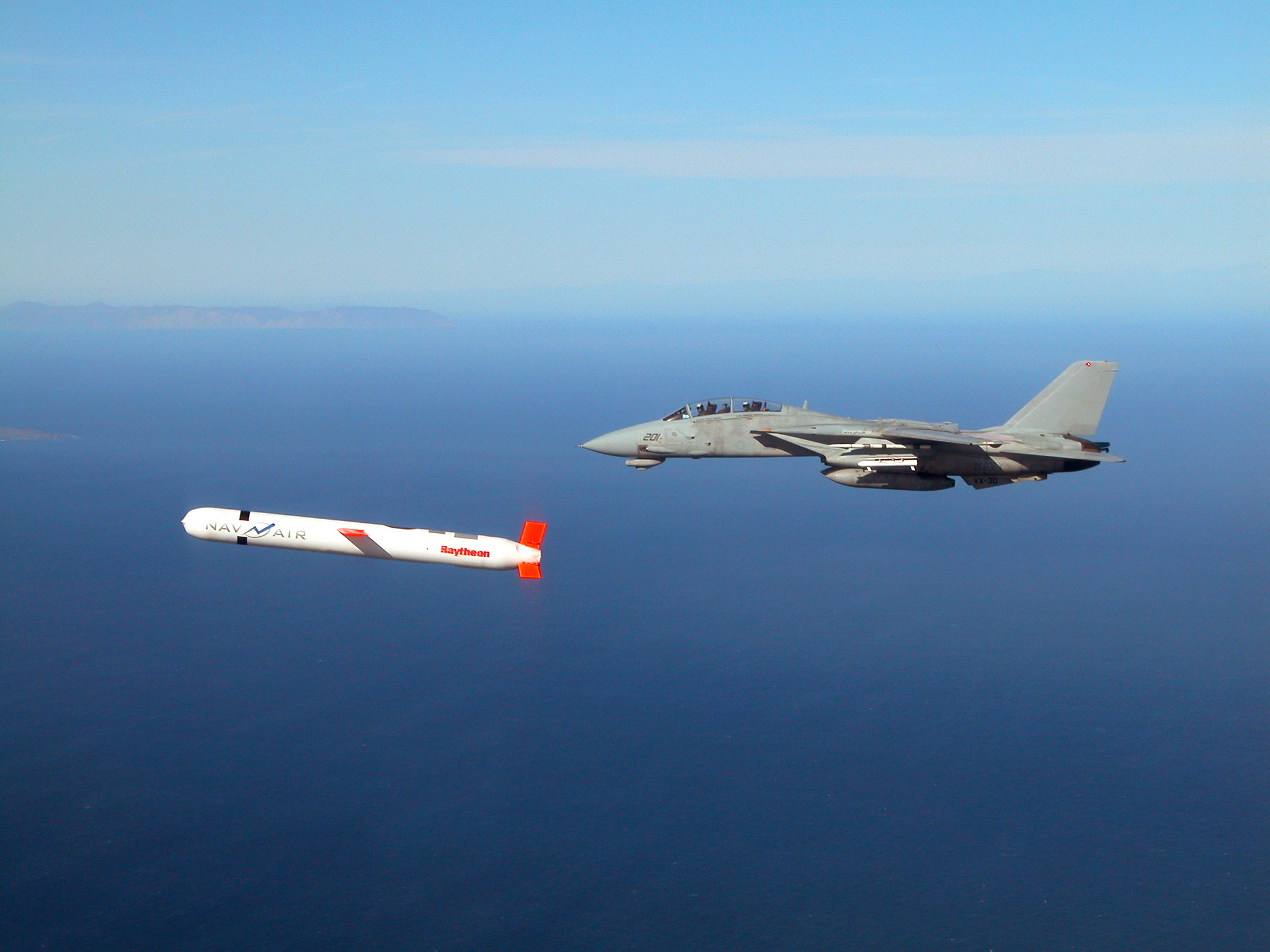 China Lake, Calif. (Nov. 10, 2002) -- A Tactical "Tomahawk" Block IV cruise missile is escorted by a Navy F-14D Tomcat fighter during a controlled test over the Naval Air Systems Command (NAVAIR) western test range complex in southern California. During the second such test flight, the missile successfully completed a vertical underwater launch, flew a fully guided 780-mile course, and impacted a designated target structure as planned. The Tactical "Tomahawk", the next generation of Tomahawk cruise missile adds the capability to reprogram the missile while in-flight to strike any of 15 preprogrammed alternate targets or redirect the missile to any Global Positioning System (GPS) target coordinates. It also will be able to loiter over a target area for some hours, and with its on-board TV camera, will allow the war fighting commanders to assess battle damage of the target, and, if necessary redirect the missile to any other target. Launched from the Navy's forward-deployed ships and submarines, Tactical Tomahawk will provide a greater flexibility to the on-scene commander. Tactical Tomahawk is scheduled to join the fleet in 2004.